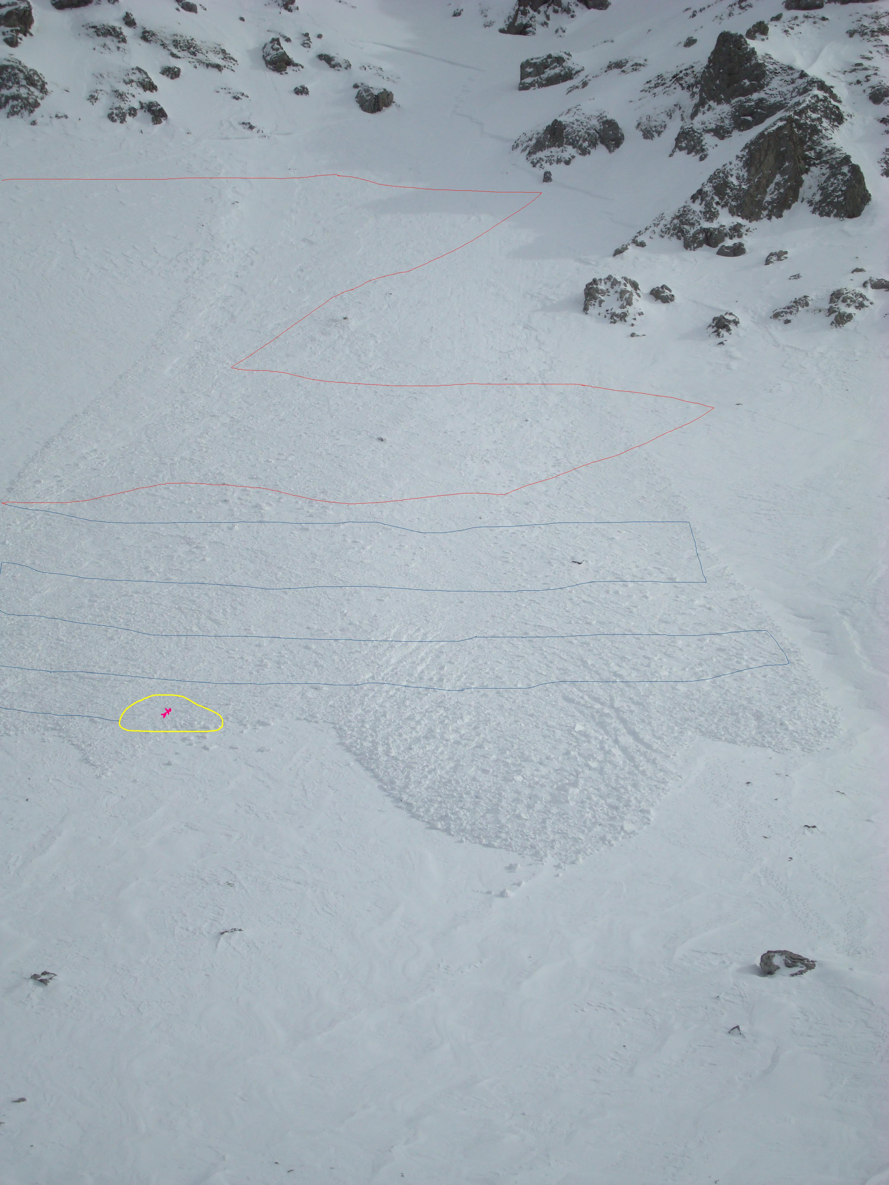 Graphic view of avalanche rescue patterns using an analanvce transceiver on Vardoysia mountains, Greece